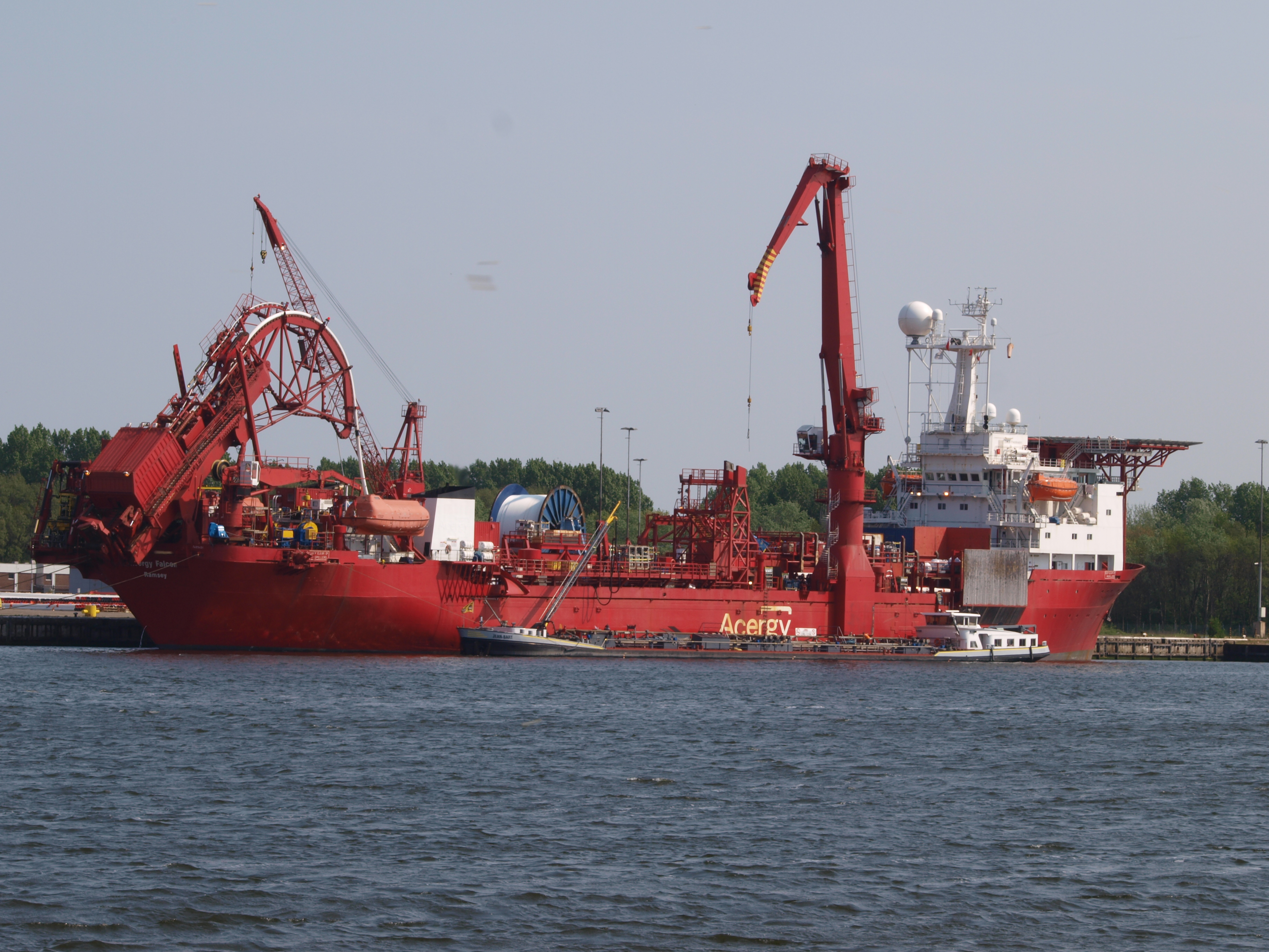 Acergy Falcon IMO 7409401 revueled by tankership Jean-Bart.